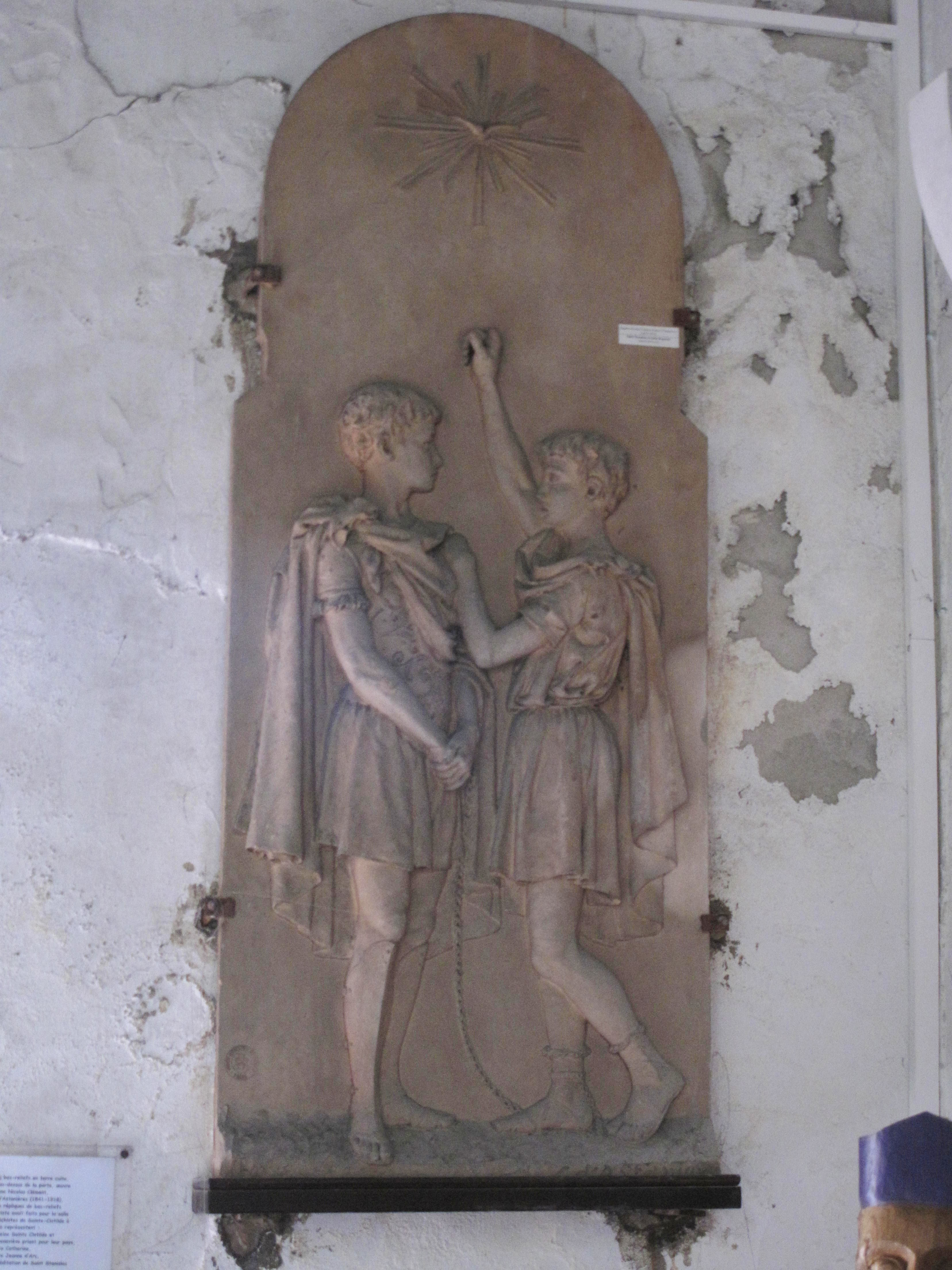 Saint-Nicolas church in Capbreton (Landes, France). Relief of Saint-Donatianus converting to christianity in his jail his older brother Saint-Rogatien. Relief by Eugène Nicolas Clément Comte d'Astanières (1841-1918). Offered at the death of the comte by his widow to the priest of Capbreton.